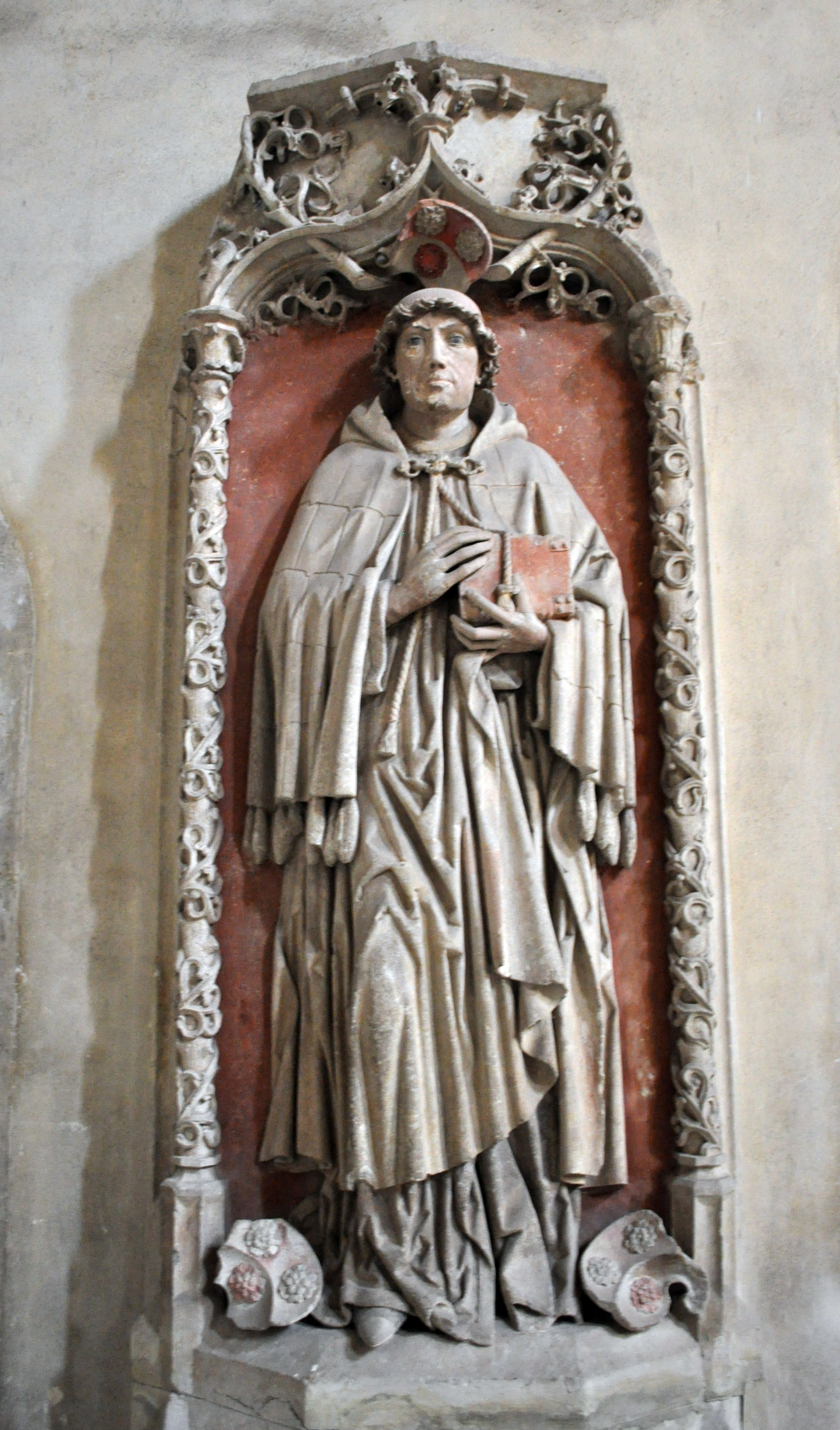 Vincent von Schleinitz, Bishop of Merseburg. Tomb sculpture in the Naumburg Cathedral (died 1535 and buried in the Merseburg Cathedral)